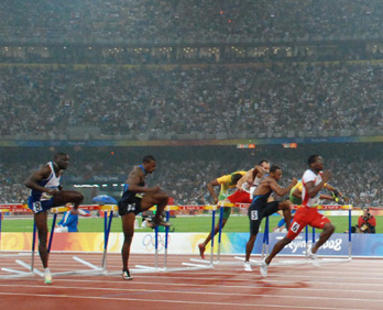 Dayron Robles of Cuba winning the 110 meters hurdles at the Beijing olympic games, august 21st 2008